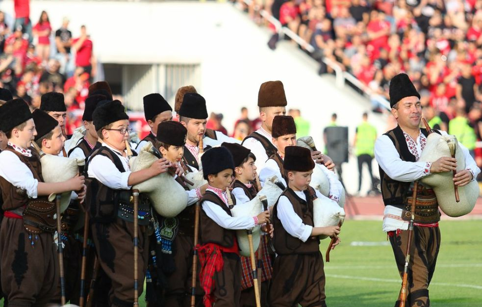 Gayda player